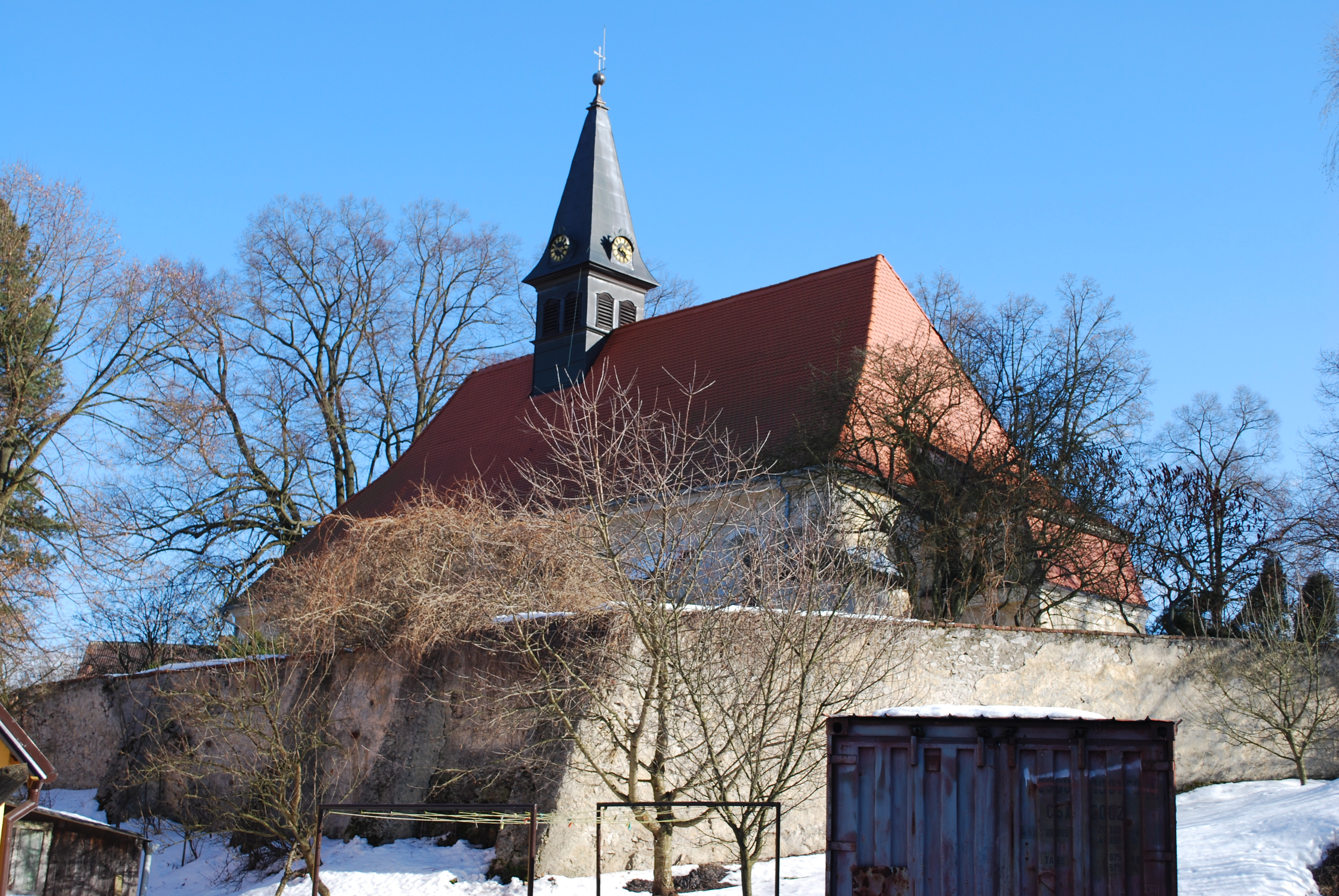 Saint Andrew church in Hlavatce village in n Tábor District, Czech Republic This photograph was taken within the scope of the 'Czech Municipalities Photographs' grant.